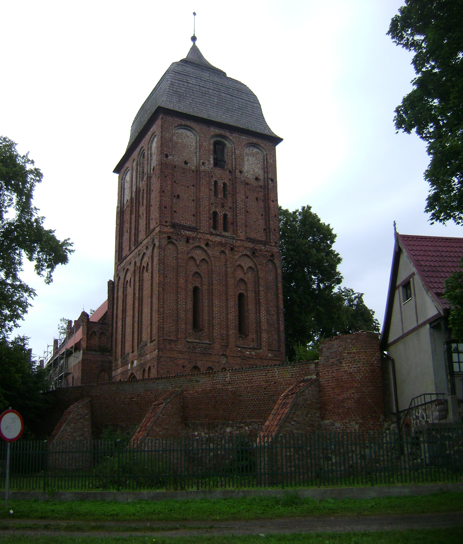 Pasym